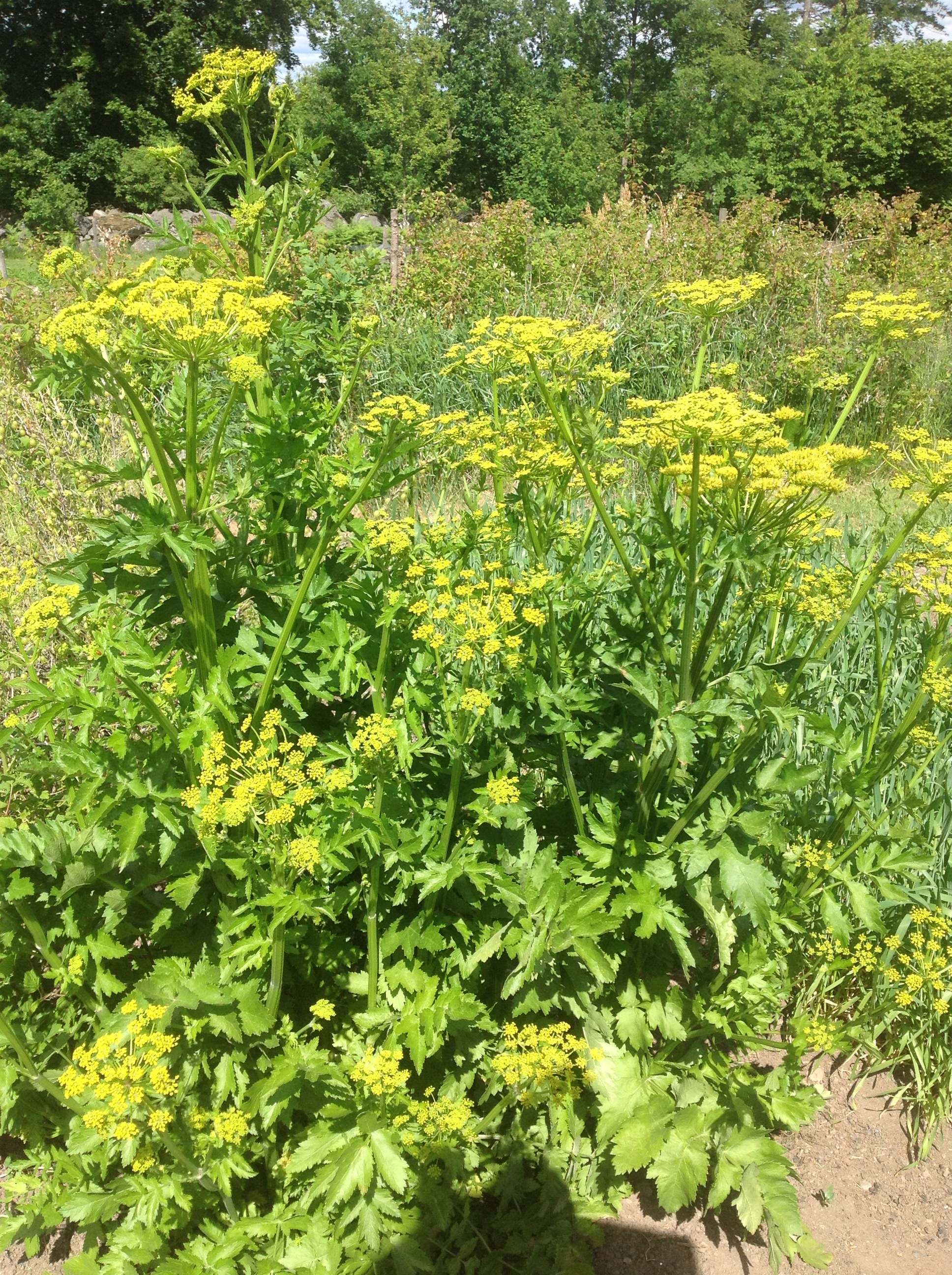 Flowering parsnip june 2016 southern Sweden.